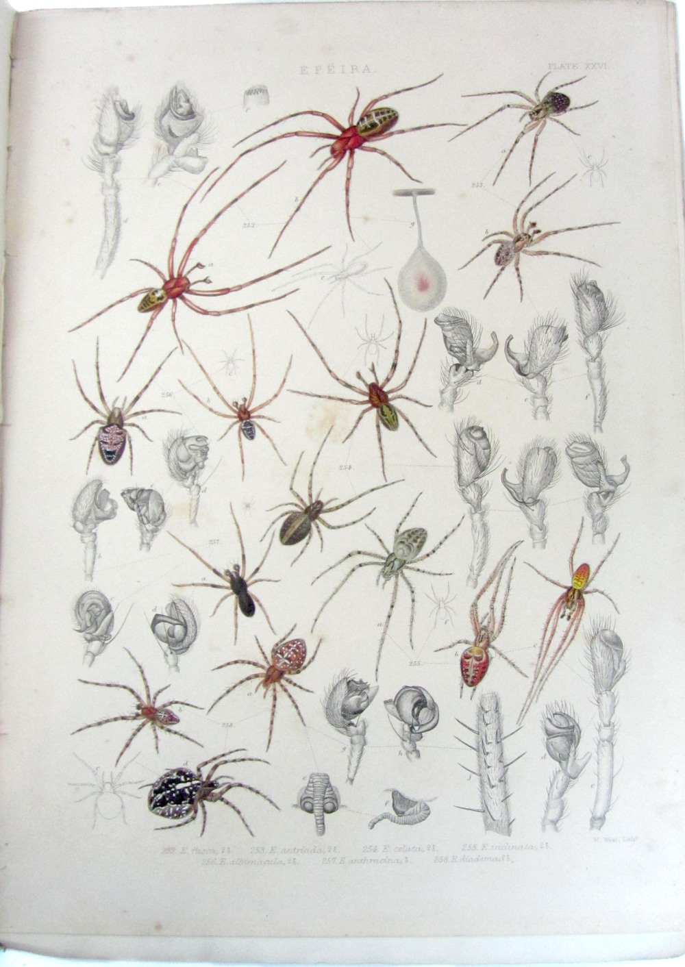 John Blackwall, F.L.S., A History of the Spiders of Great Britain and Ireland. London: Published for the Ray Society by Robert Hardwicke 1861-1864. Plate